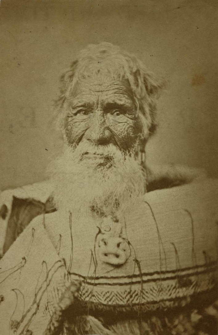 Eruera Maihi Patuone, photograph by George Redfern.